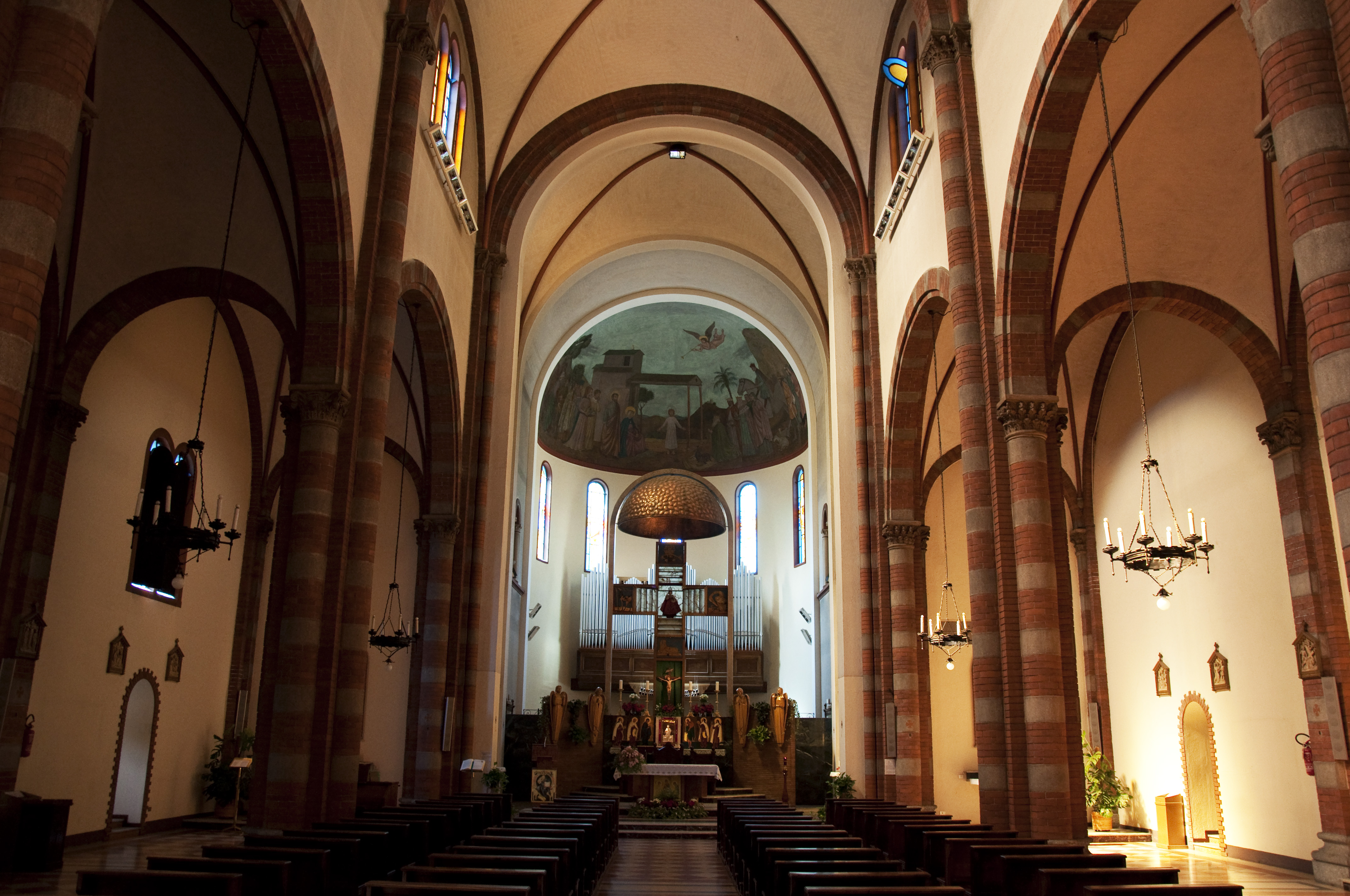 Santuario Madonna del Carmelo in Monza (MI)